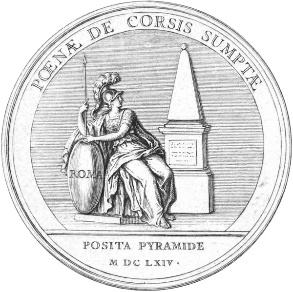 Etching of a coin medal by Louis XIV to commemorate the disband of the Corsican Guard in Rome in 1664. The inscription recites: POENAE DE CORSIS SUMPTAE POSITA PYRAMIDE MDCLXIV (Pyramid built to punish the attack of the Corsicans in 1664)